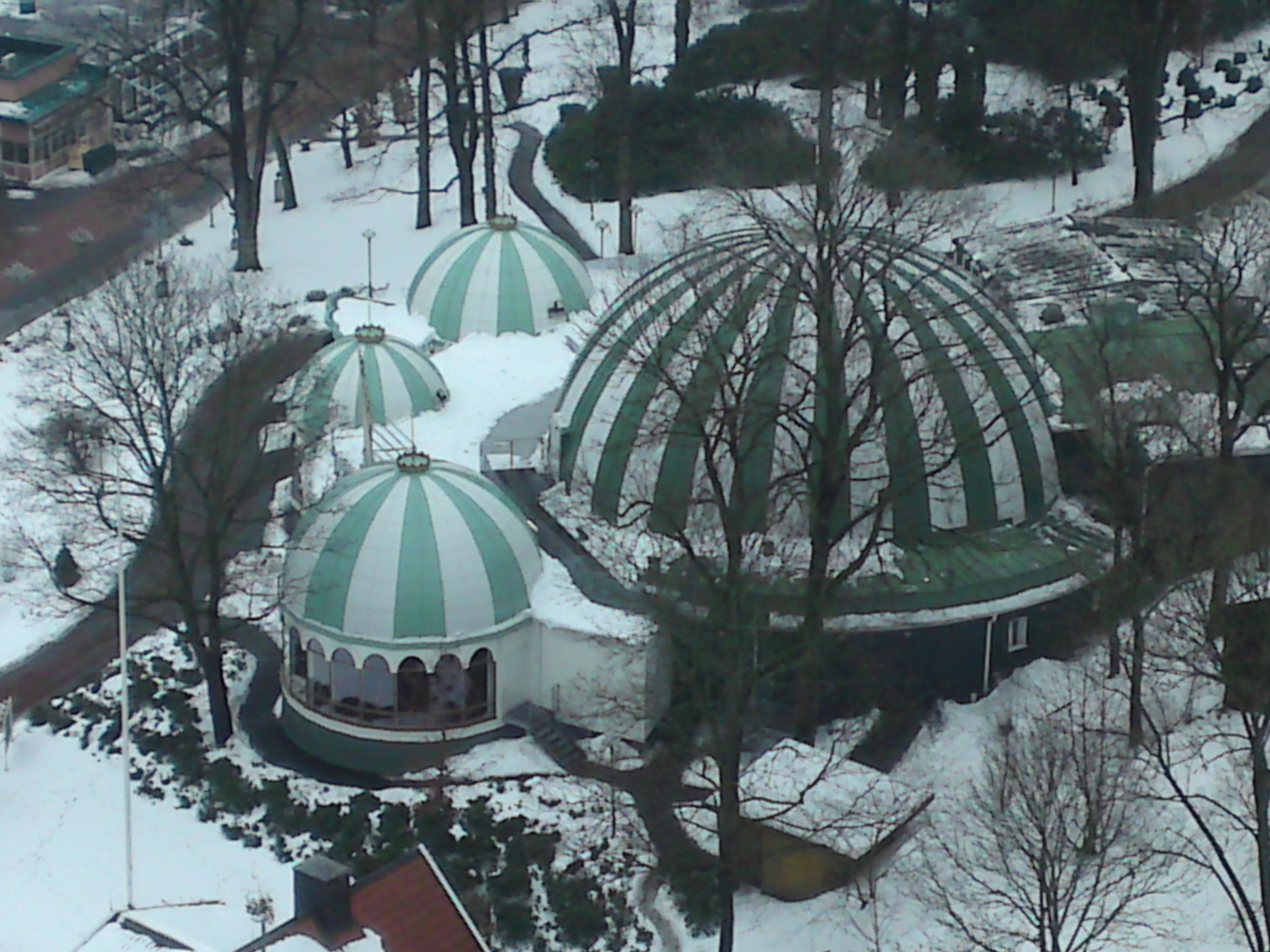 The theatre Lisebergsteatern at Liseberg in Gothenburg, Sweden.